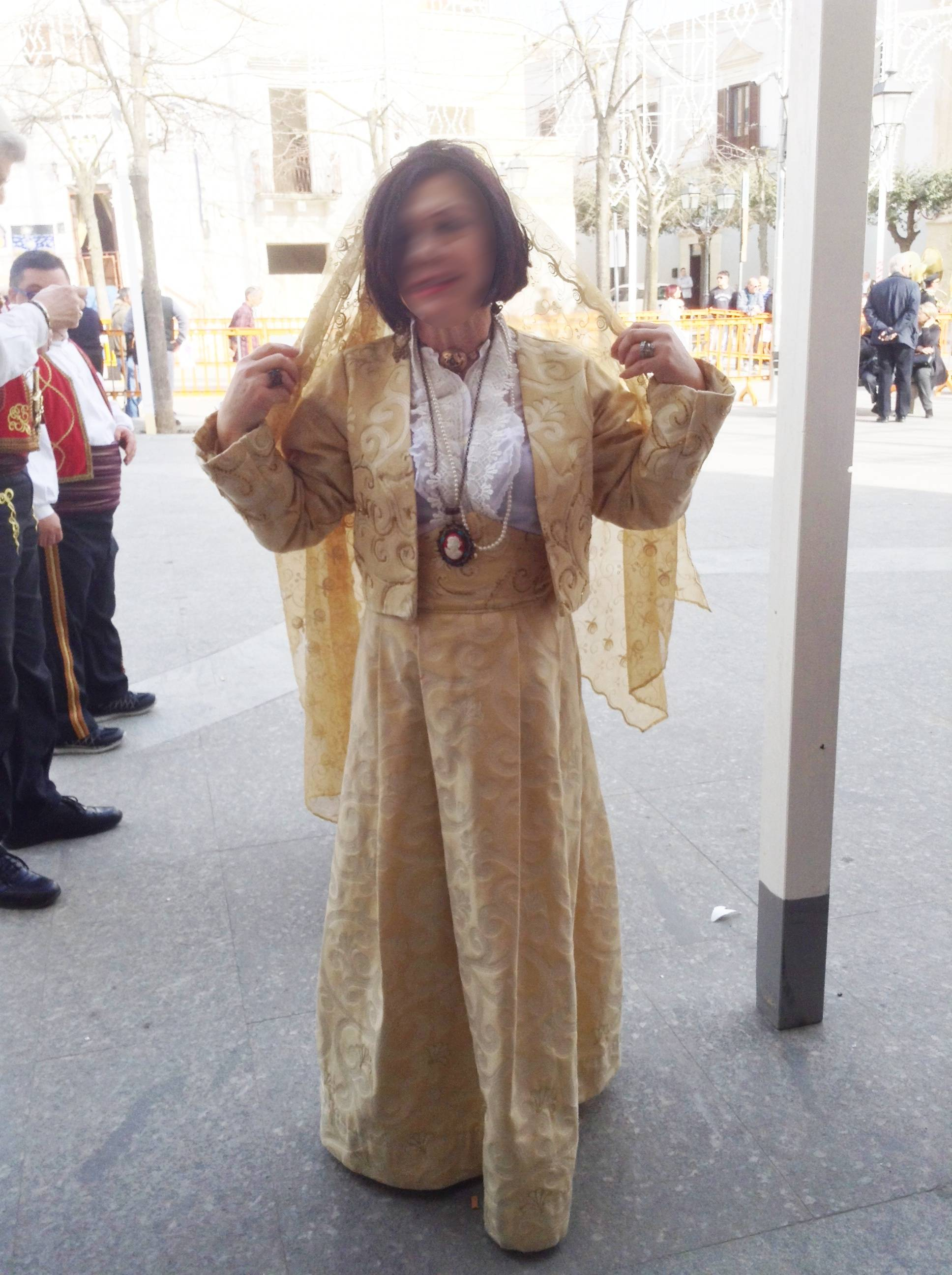 Arbëreshë costume of San Marzano di San Giuseppe